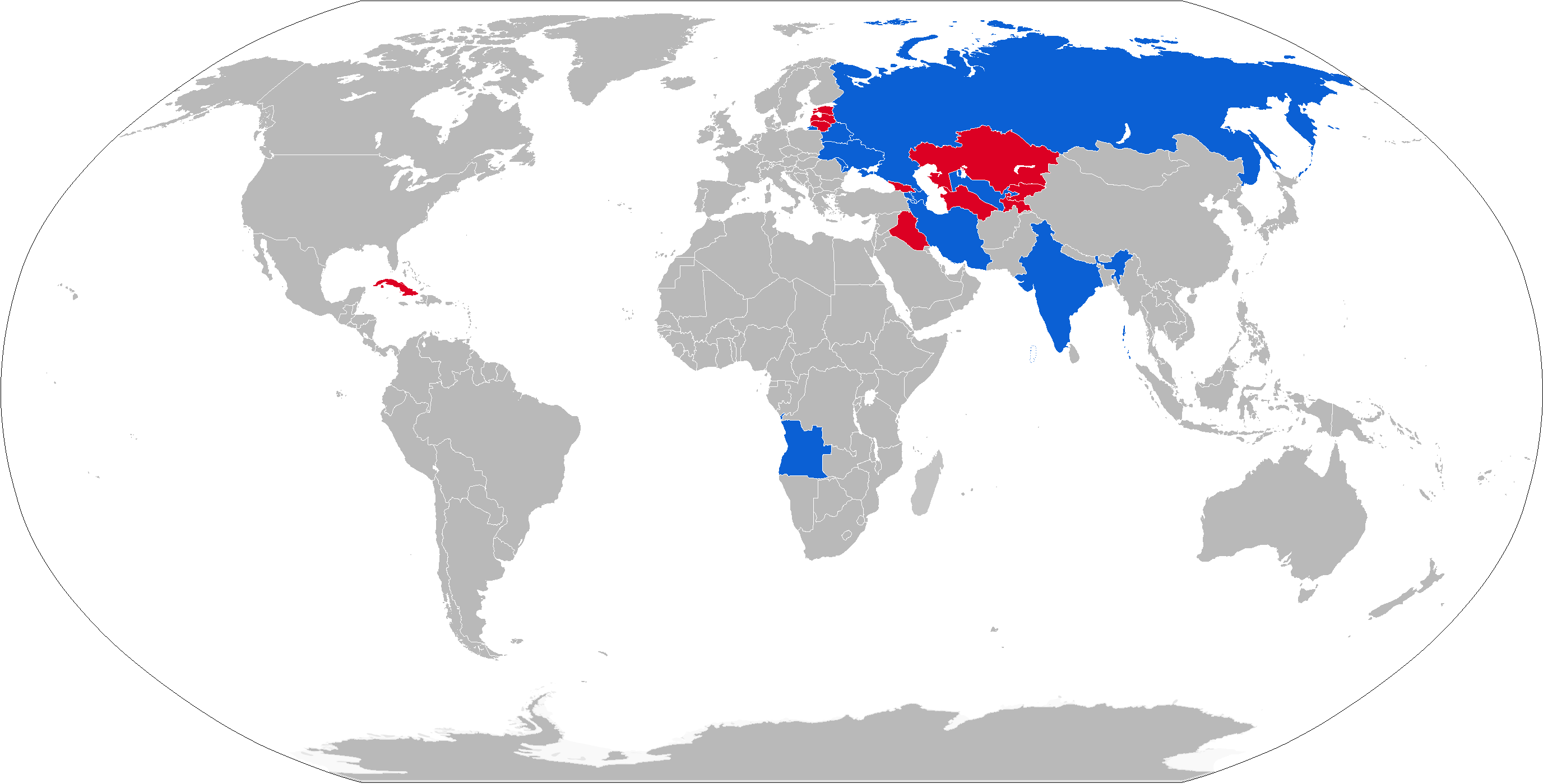 Map of BMD-1 operators in blue with former operators in red